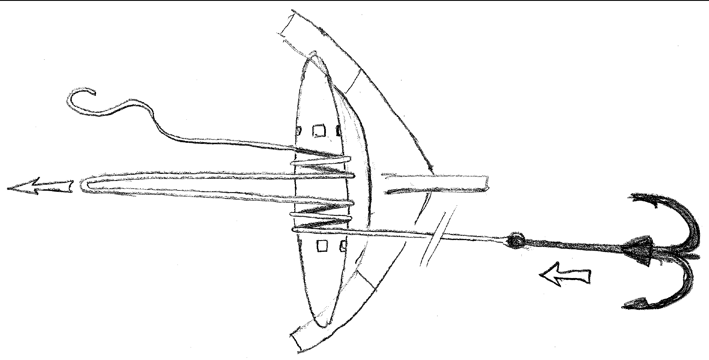 Anchor winch on Volendammer kwak (traditional dutch fishing vessel) Pencil drawing, 2003 Author: Henk de Boer